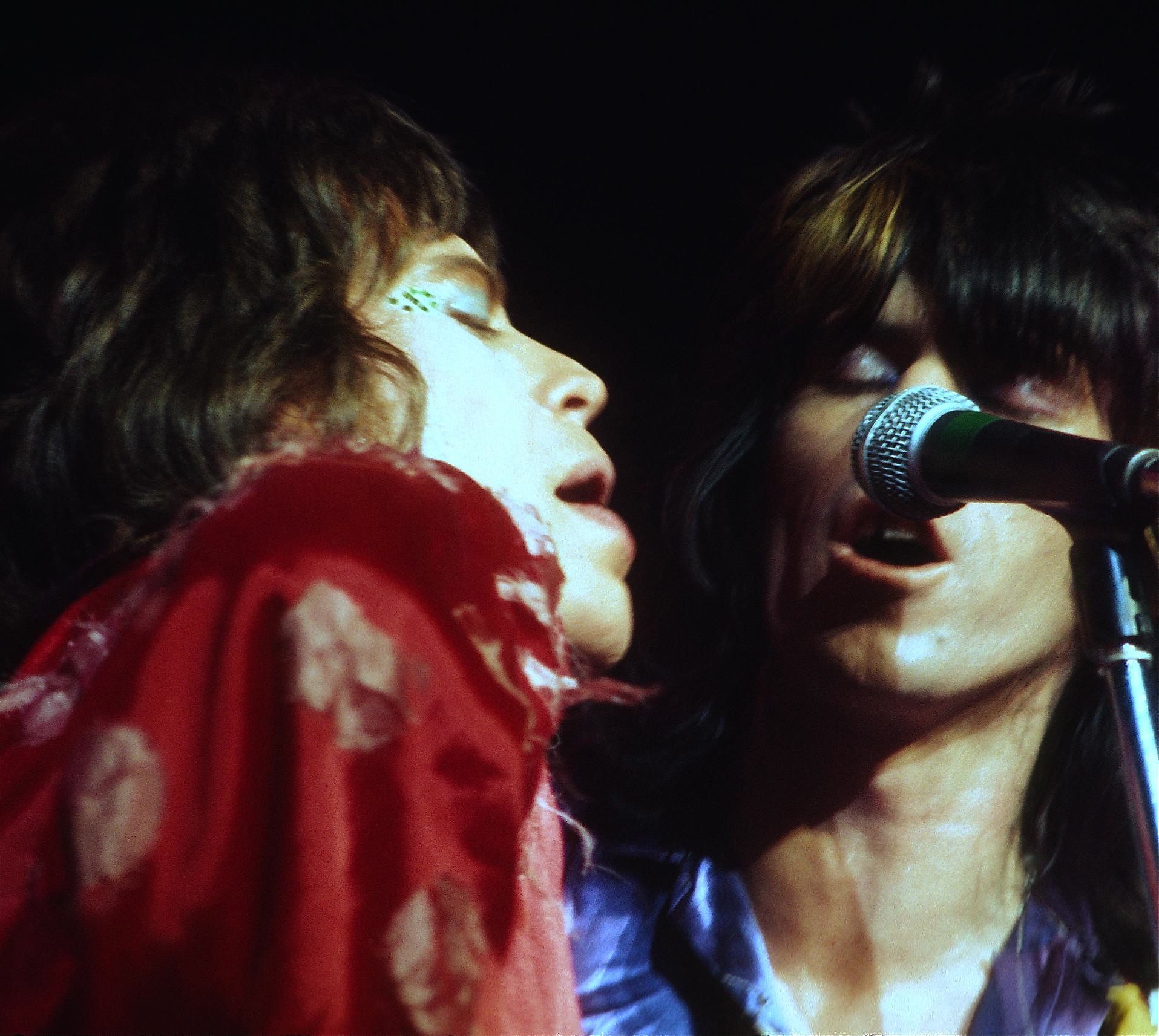 Mick Jagger (left) and Keith Richards (right) in June 1972 at Winterland in San Francisco (California, USA)